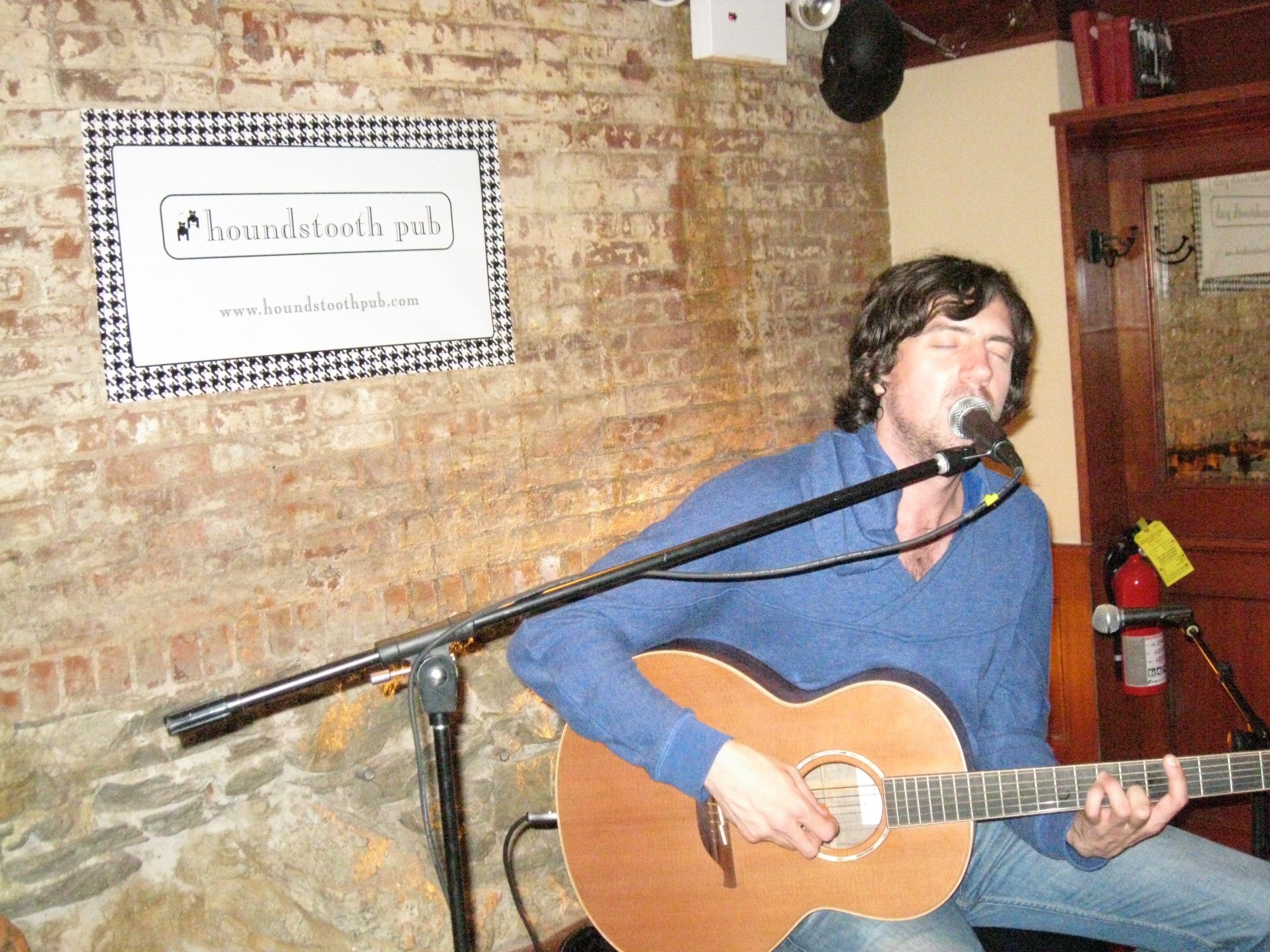 Gary Lightbody (with Snow Patrol) play an acoustic set at Houndstooth Pub in New York City on 23 September 2009.